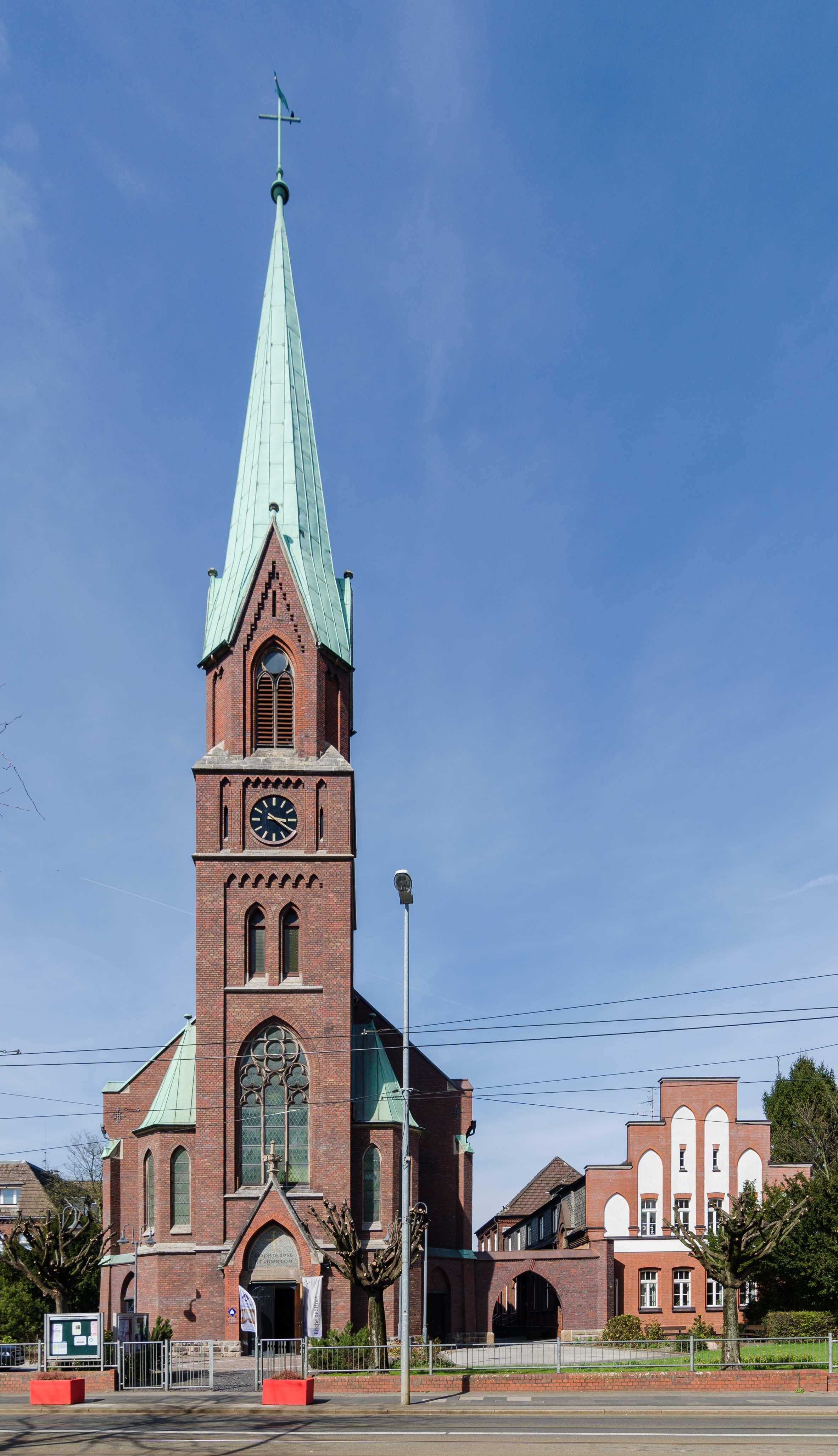 Mülheim (North Rhine-Westphalia, Germany) – district Speldorf – Protestant Luther Church with parish hall